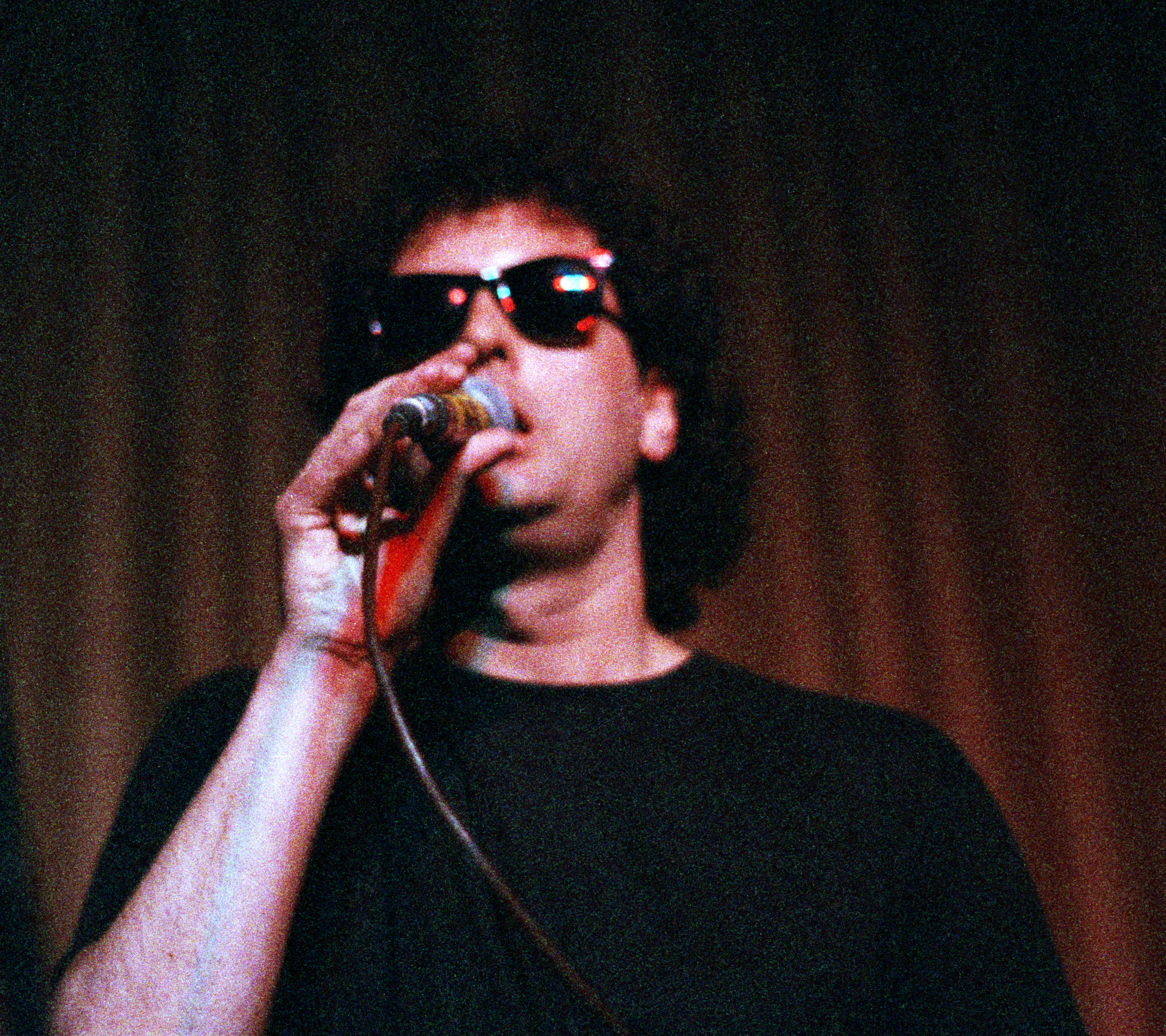 Geraint Jarman. Geraint Jarman a'r Cynghaneddwyr playing in Aberystwyth in November 1985. Image by Medwyn Jones